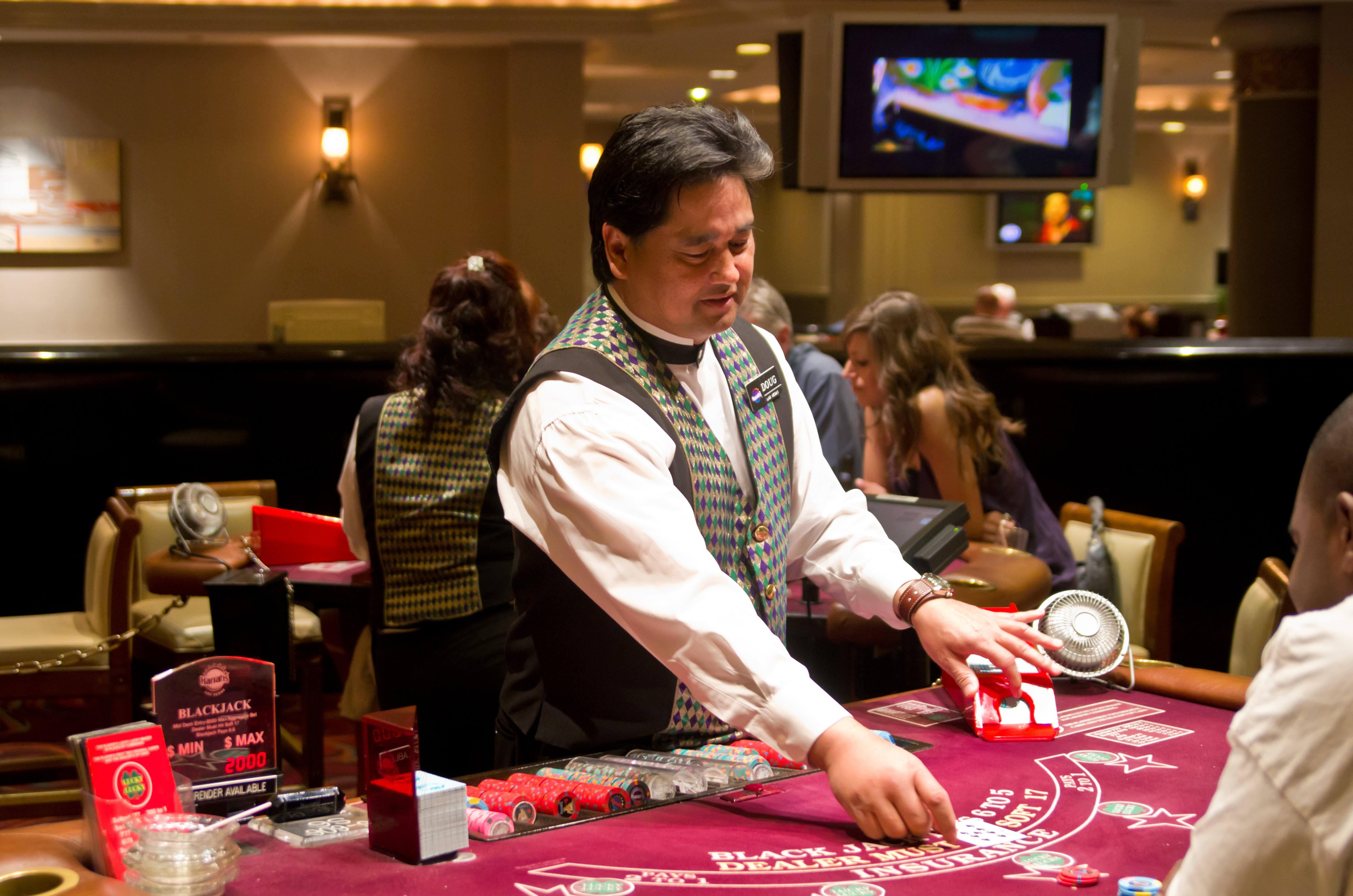 Harrah's hotel (Las Vegas)